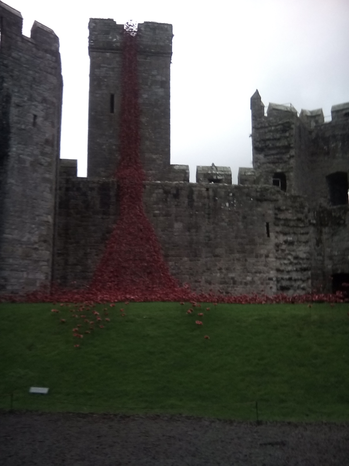 Poppies Weeping Window by Paul Cummings and Tom Piper, tour Caernarfon Castle 11 October - 20 November 2016